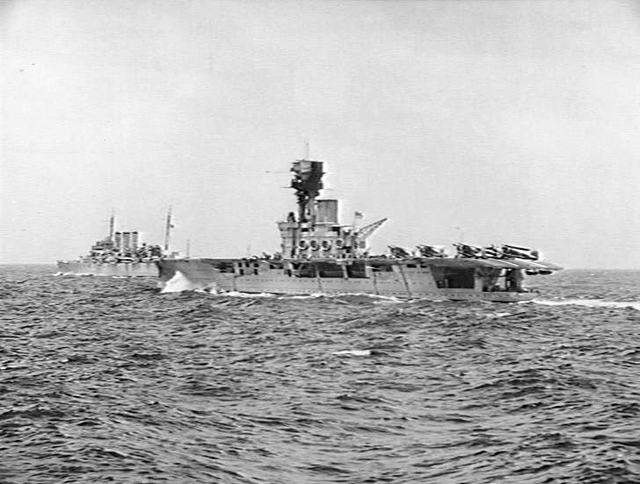 British aircraft carrier HMS Hermes (right) and heavy cruiser HMS Dorsetshire while escorting convoy US.3, which was carrying Australian and New Zealand soldiers to the United Kingdom. The photo was taken during the leg from Freetown in Sierra Leone to its final destination in the Clyde River of Scotland.